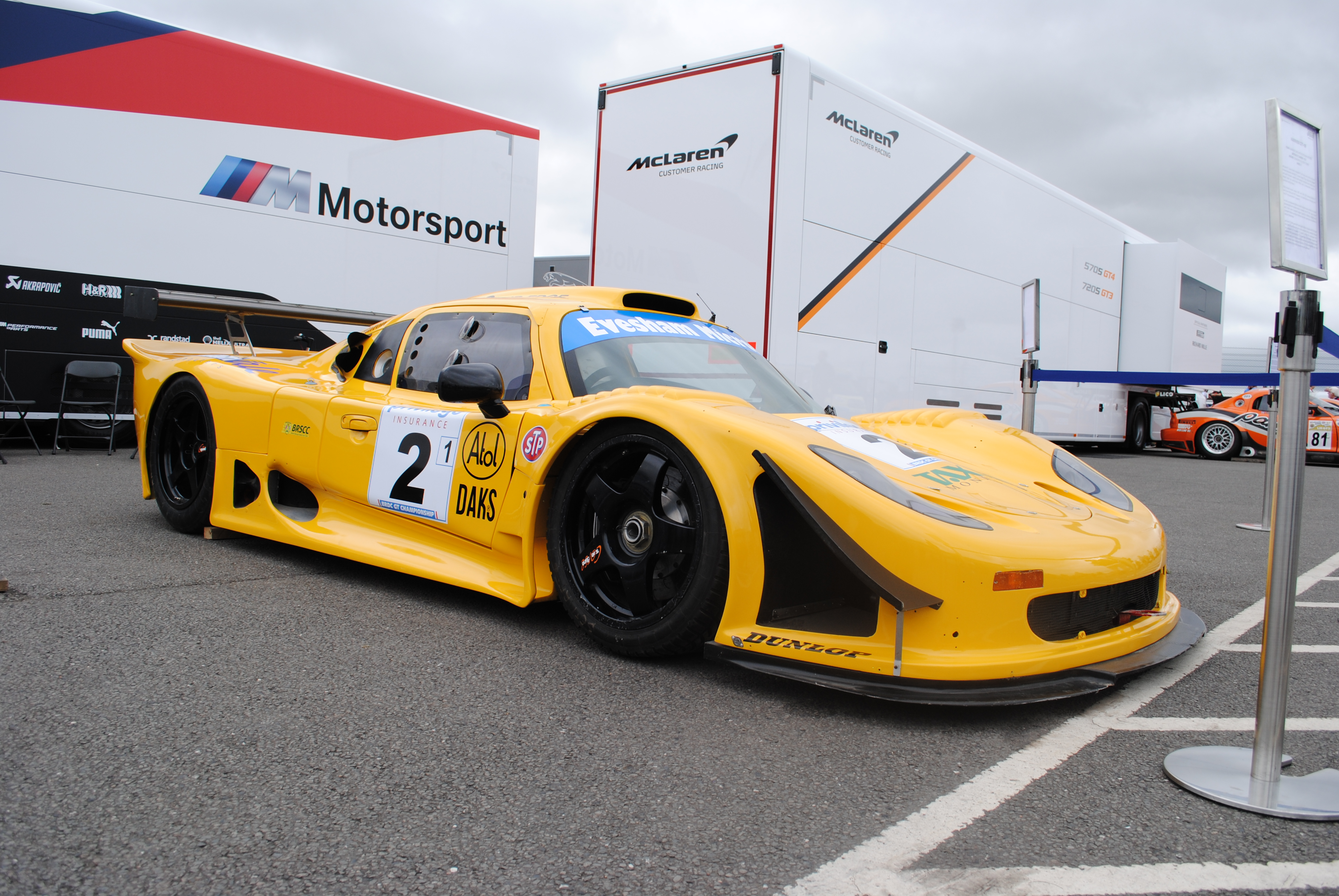 This Ha rrier GT1-98 was used in the 1998 British GT Championship, driven by Jamie Campbell-Walter and David Goode.